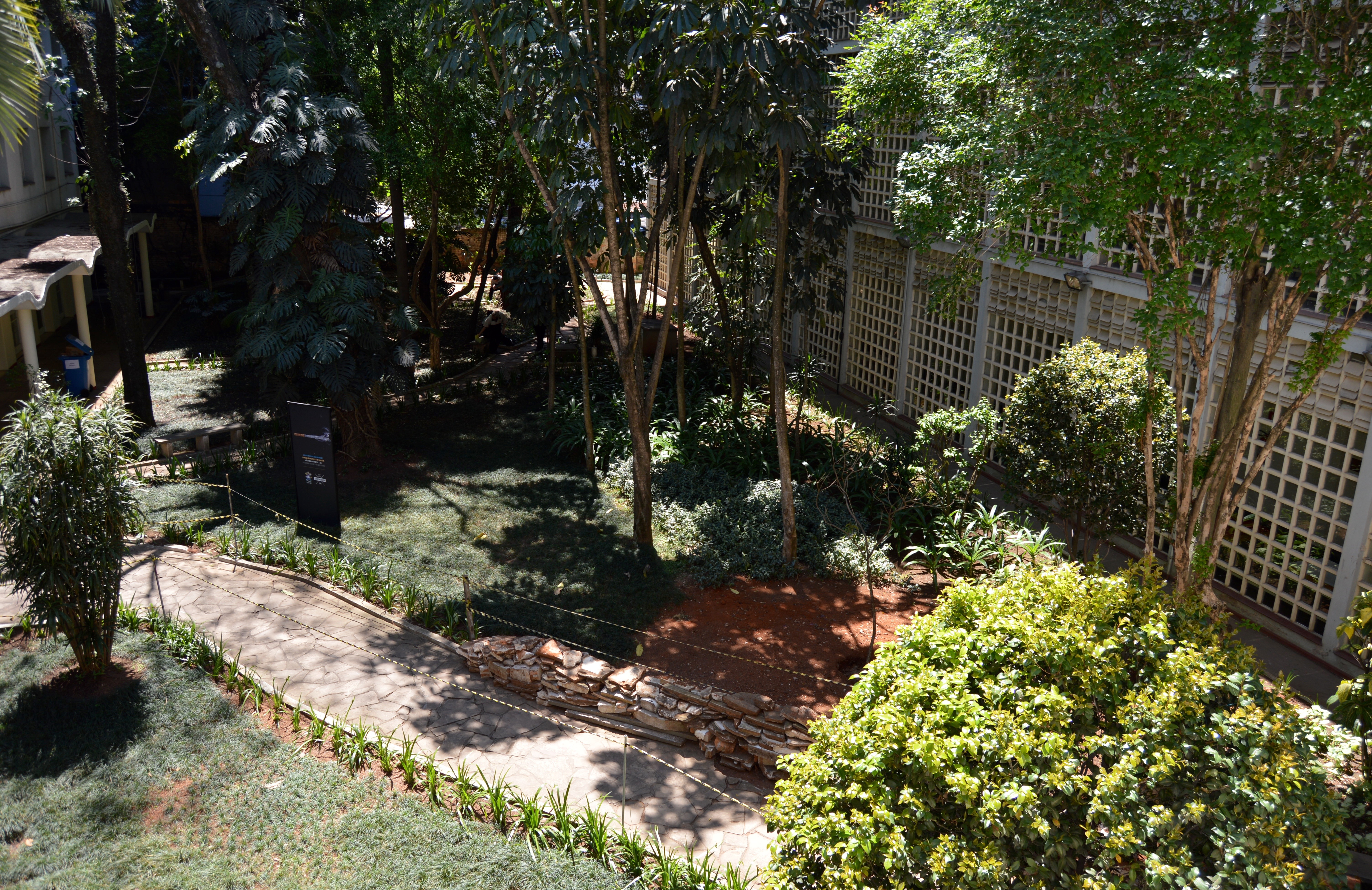 View from the 2nd floor of the Institute's yard.